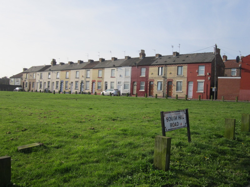 Houses on South Grove, Dingle, Liverpool, England. As seen from the junction of South Hill Road and Park Road.